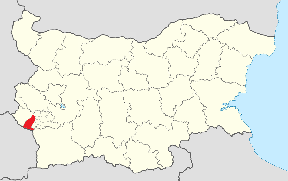 Location map of Nevestino Municipality within Bulgaria and Kyustendil province